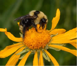 Bombus (Psithyrus) insularis on Hymenoxys hoopesii. Original description: "A cuckoo bumblebee (Psithyrus insularis) searching for pollen and nectar on sneezeweed (Dugaldia hoopsii). Photo by Dr. David Inouye, University of Maryland."